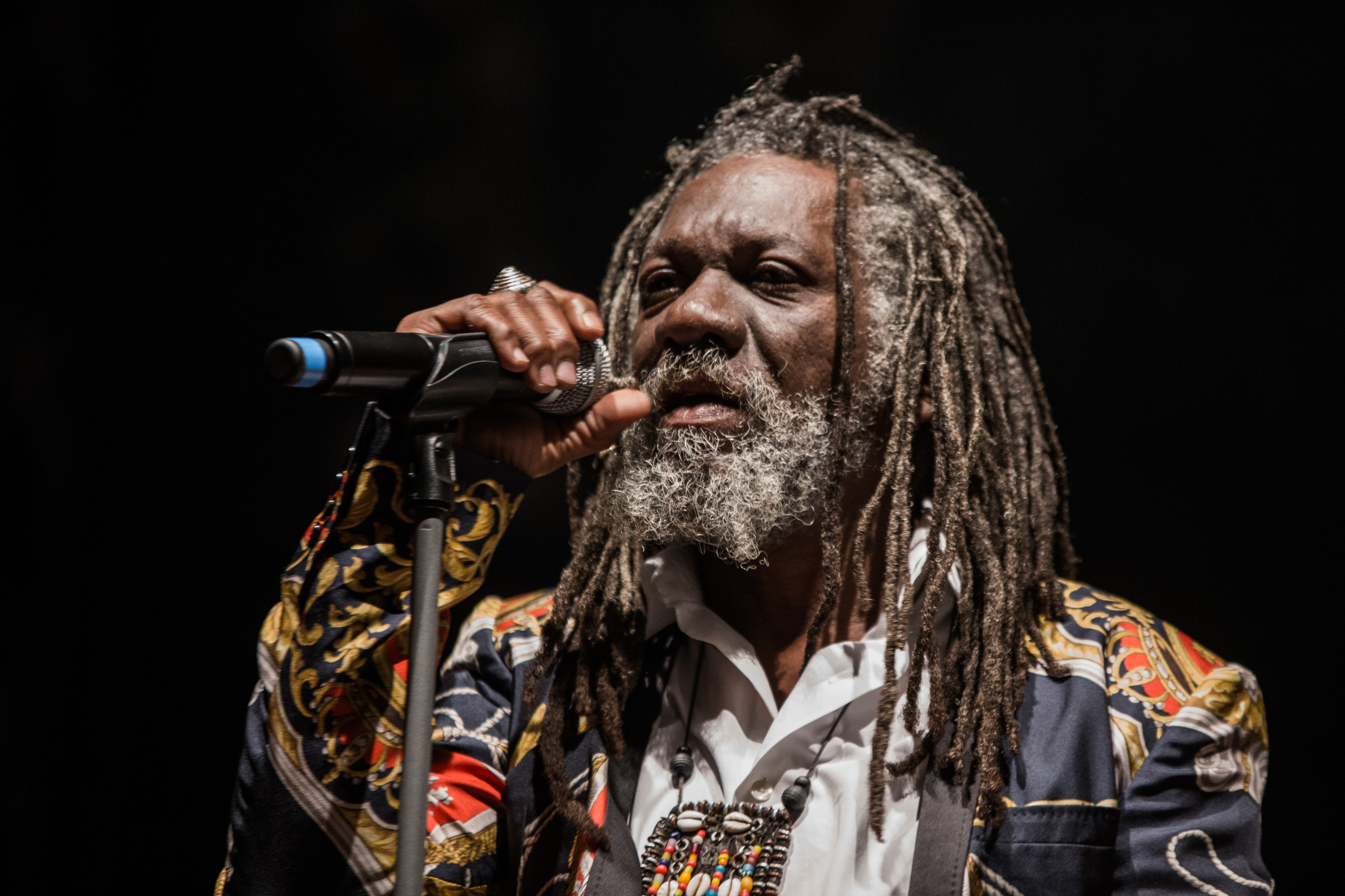 Winston McAnuff & Fixi TTF.Rudolstadt 2014 Festivalsommer This photo was created with the support of donations to Wikimedia Deutschland in the context of the CPB project "Festival Summer".